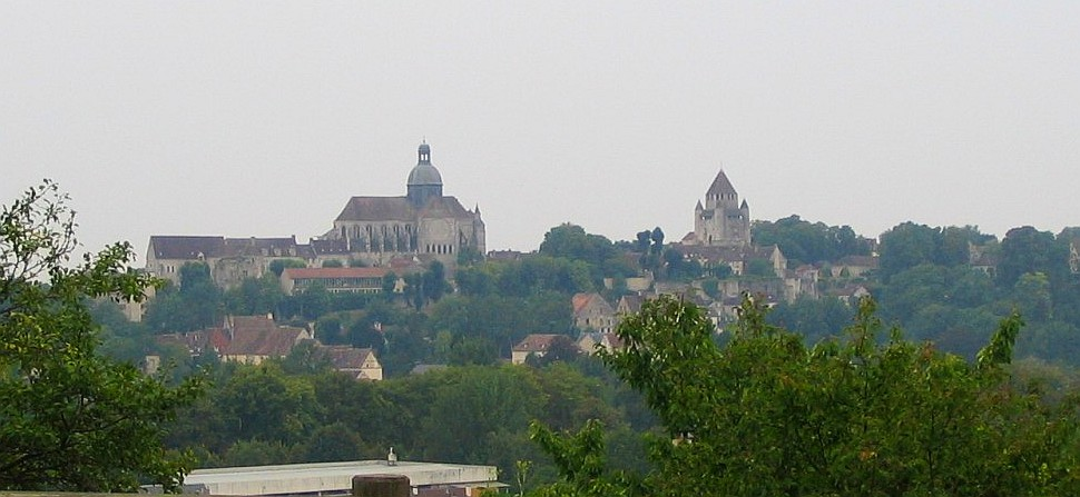 Provins, France, view from the north